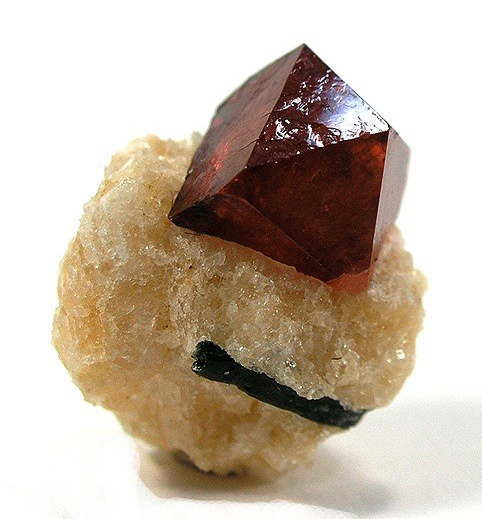 Zircon Locality: Gilgit, Gilgit District, Northern Areas, Pakistan (Locality at ) This is a lustrous, gemmy, cognac-colored crystal of zircon perched on a sugary, tan matrix of calcite. The tetragonal form of the almost, 1.0 cm zircon crystal, is very evident. It is a superb thumbnail, and of a quality that is extremely rare for the locality - let alone in an aesthetic specimen of any kind! This complex crystal is stunning. 1.8 x 1.5 x 1.1 cm